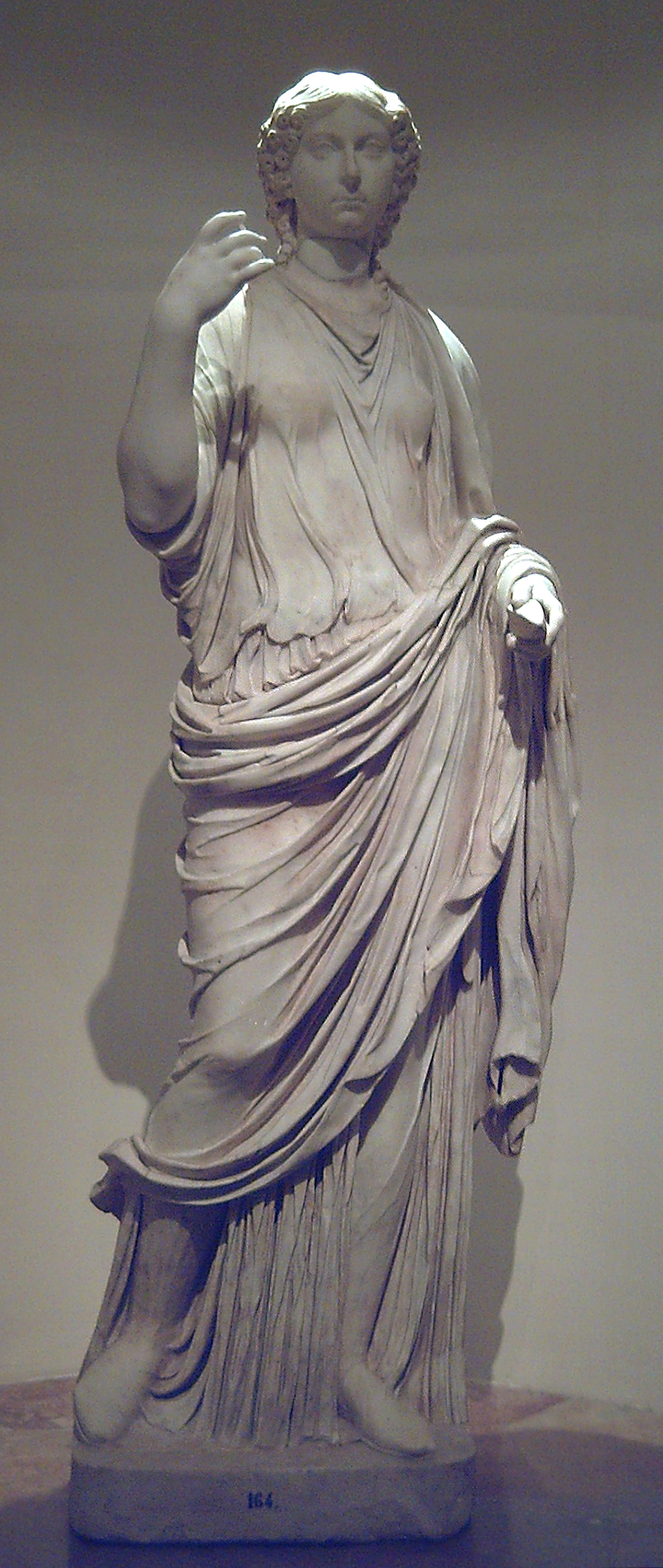 Roman statue of a lady from the Julio-Claudian period.